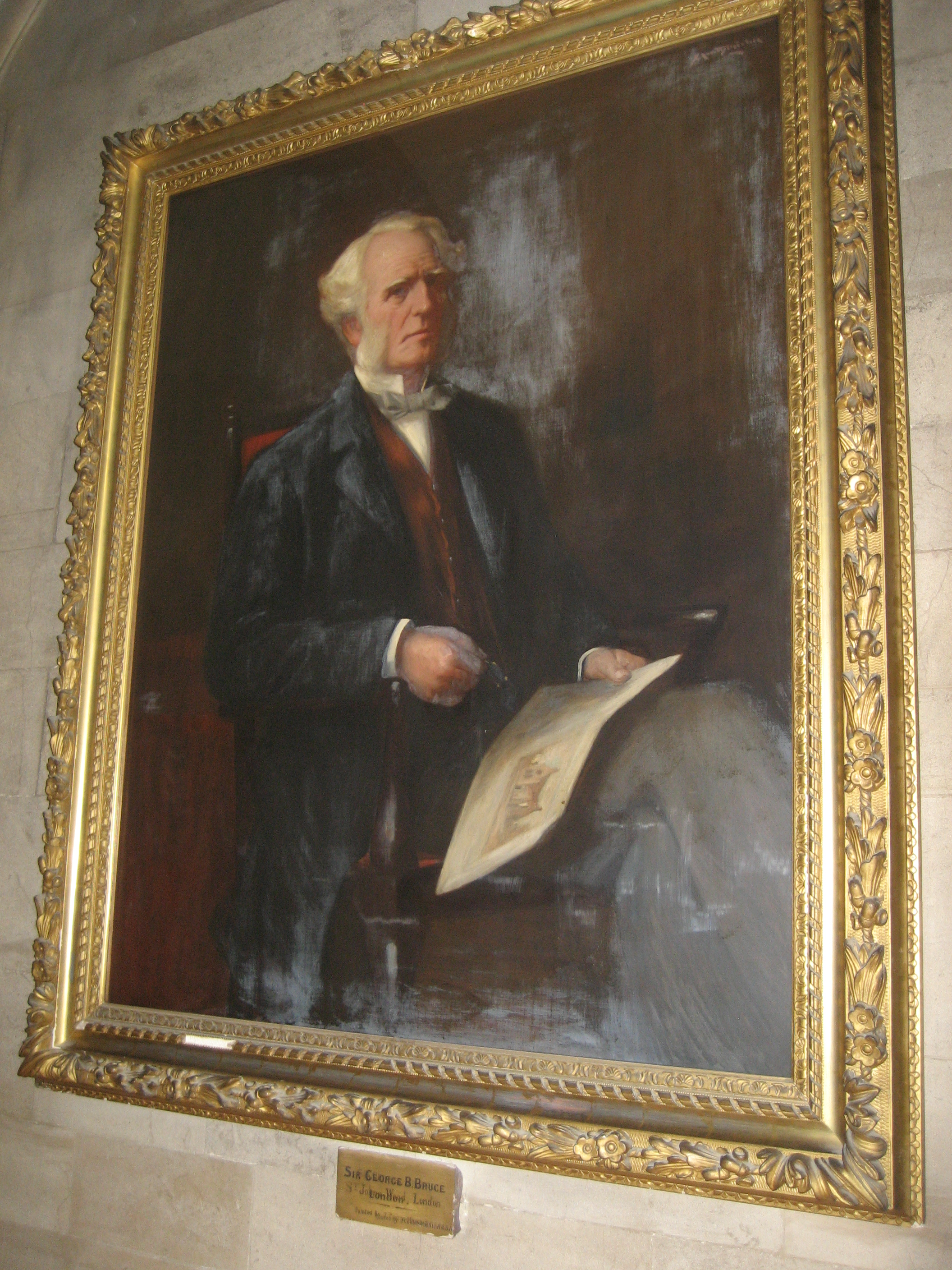 Painting of George Barclay Bruce (1821-1908), St John's Wood, London. By James Coutts Michie (1859-1919). In Westminster College, Cambridge, England (United Kingdom).